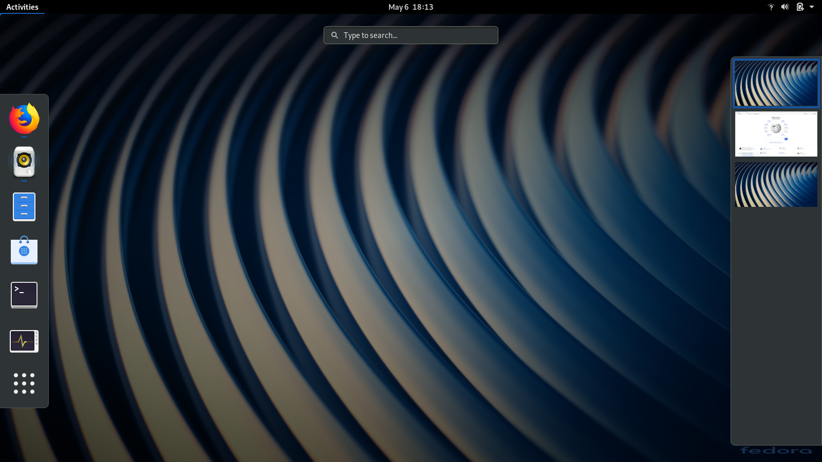 Fedora 30 running Gnome shell